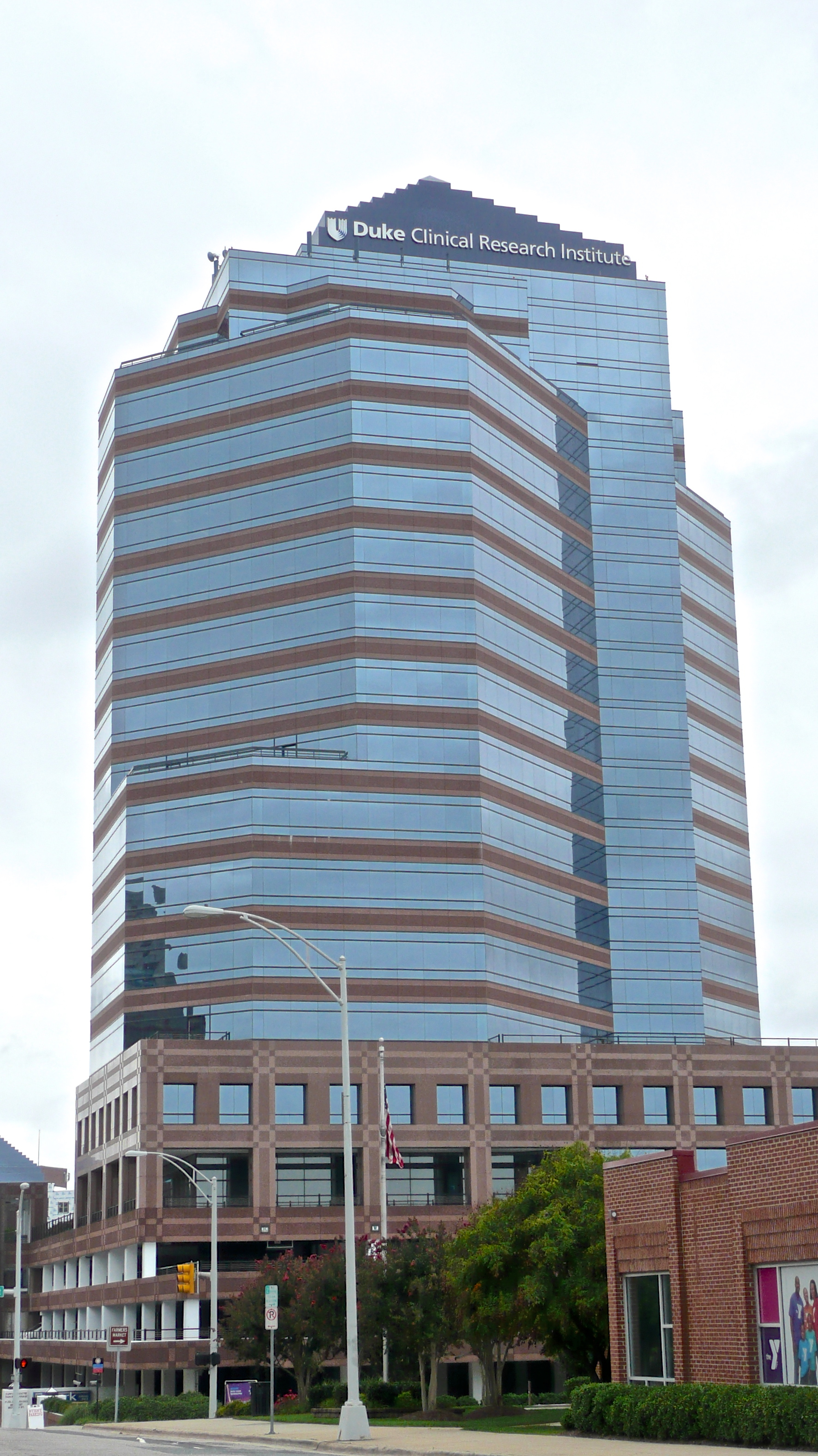 Duke Clinical Research Institute, Durham, North Carolina. Uploaded as part of the Summer of Monuments Camping Trip 2014. This image was uploaded as part of Wikipedia Summer of Monuments. English | +/−